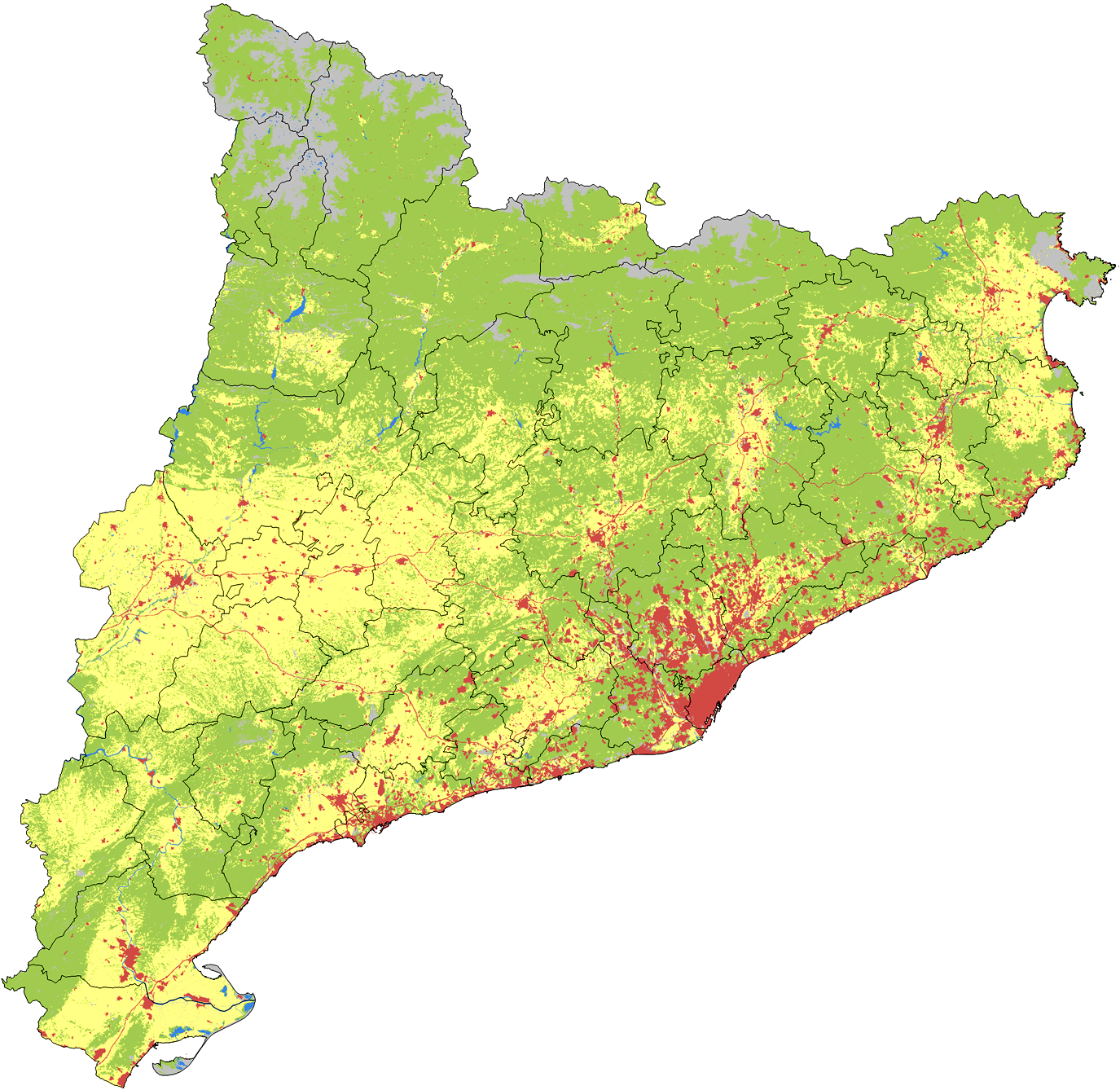 Map of land use in Catalonia, data from 2002, after the Department of Environment and Household of the Government of Catalonia. Key: continental waters forests, pastures and humid vegetation sandy or snow-covered areas and other improductive soils urban and industrial areas, roads croplands